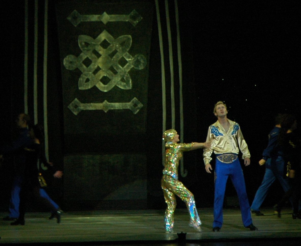 "Lord of the Dance" show of Michael Flatley, part 1 "Cry Of The Celts" with "Lord of the Dance" and "The Little Spirit".